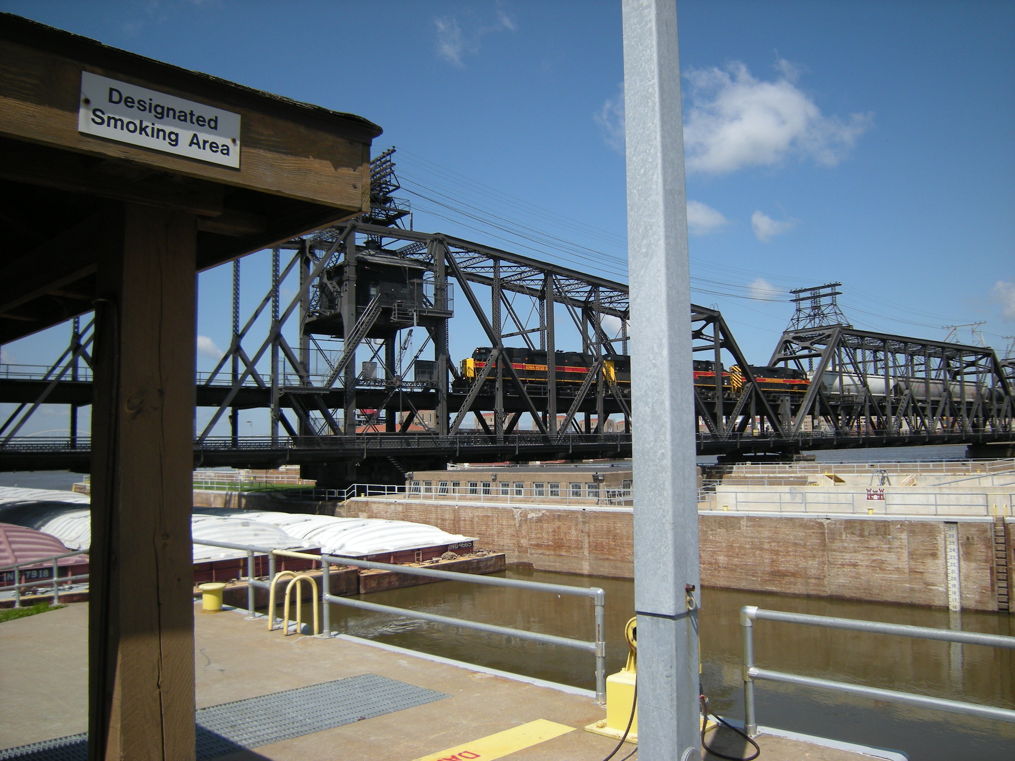 Iowa Interstate Railroad freight train crossing the Arsenal Bridge from Davenport, Iowa into Rock Island, Illinois